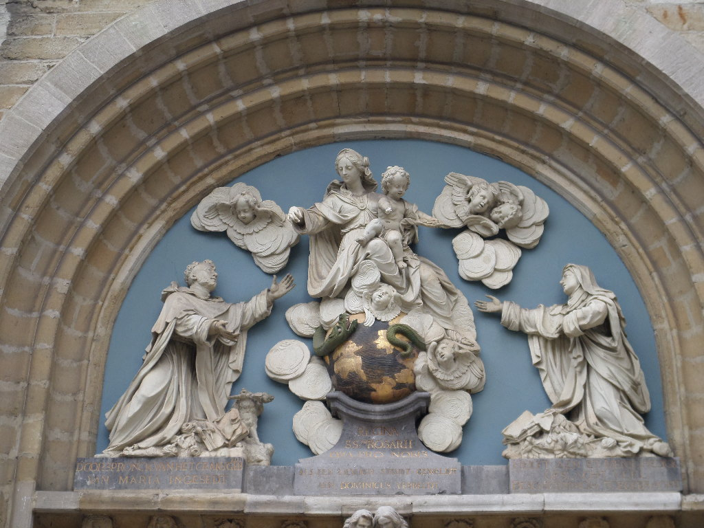 Facade detail from Sint-Pauluskerk, tympanum sculpture by Jan Claudius de Cock of 1734 depicting Our Lady of the Rosary giving St. Dominic a rosary together with Catherine of Sienna, the reformer of the Dominican Order